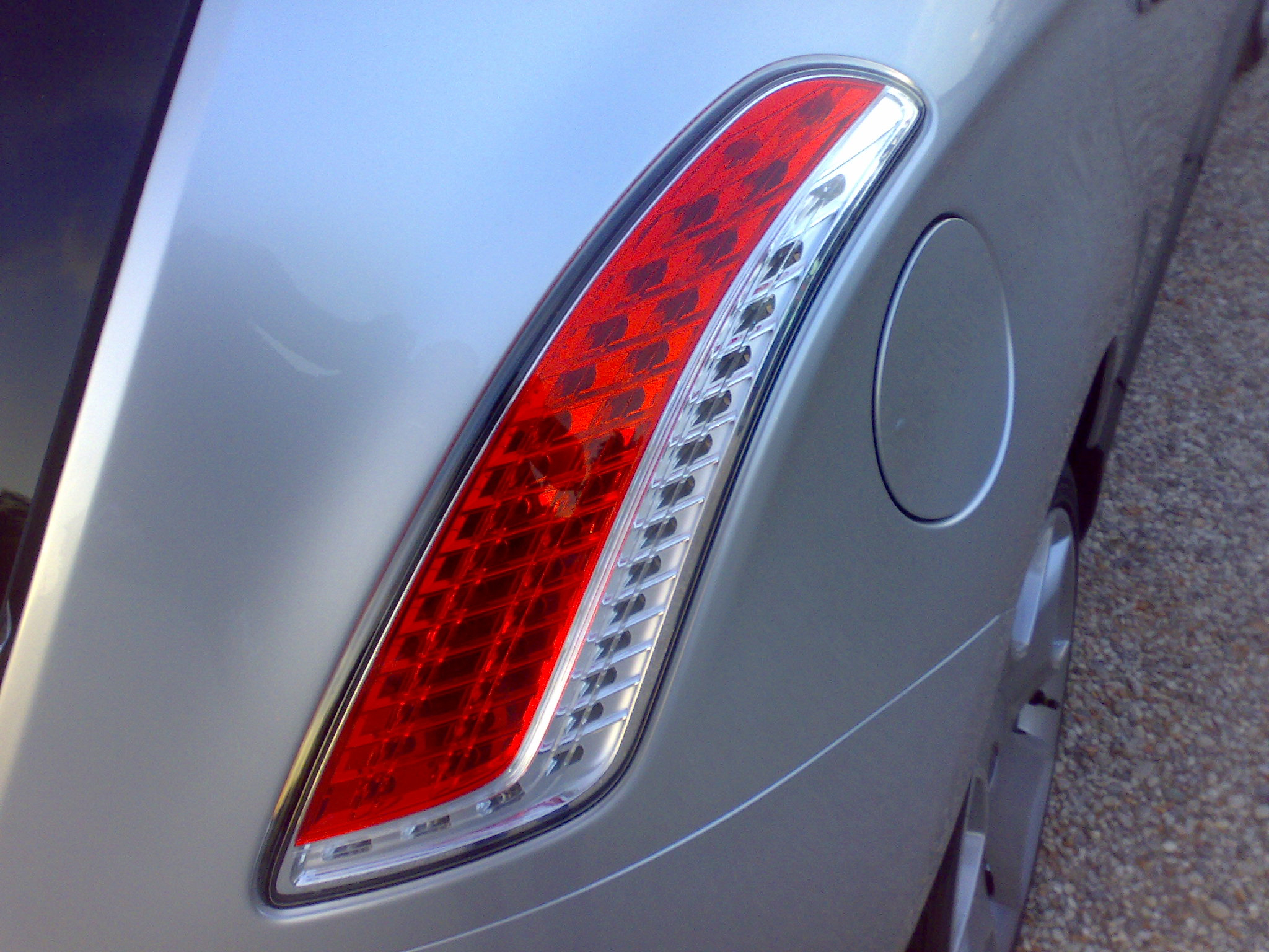 only italian description